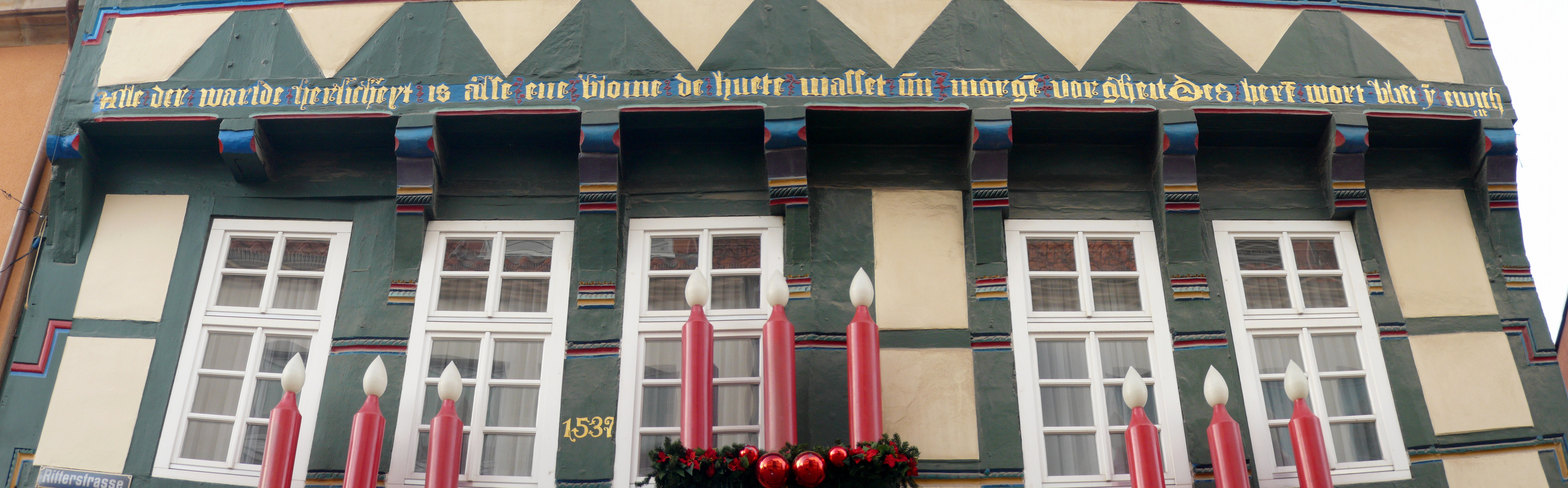 Inscription in Middle Low German on a house at Hameln. Translation: All the world's magnificence is like a flower that grows today and vanishes tomorrow; the Lord's word remains in eternity.